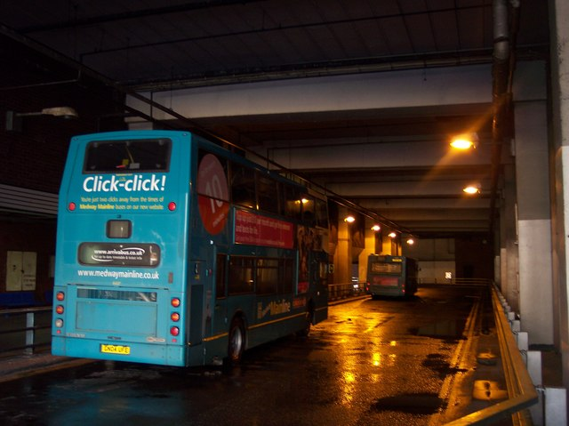 Chatham Bus Station This station is on the first floor of the Pentagon Centre. Buses travel around a circular route to various alphabetically placed busstops for various bus routes. Today it is virtually empty. No Buses are running due to the heavy snowfall last night, and icy roads today. Walking, (limited) taxi or trains the only way of moving today.